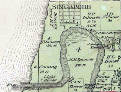 Map of Singapore, Michigan, 1873